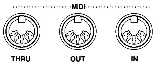 Midi inputs and outputs